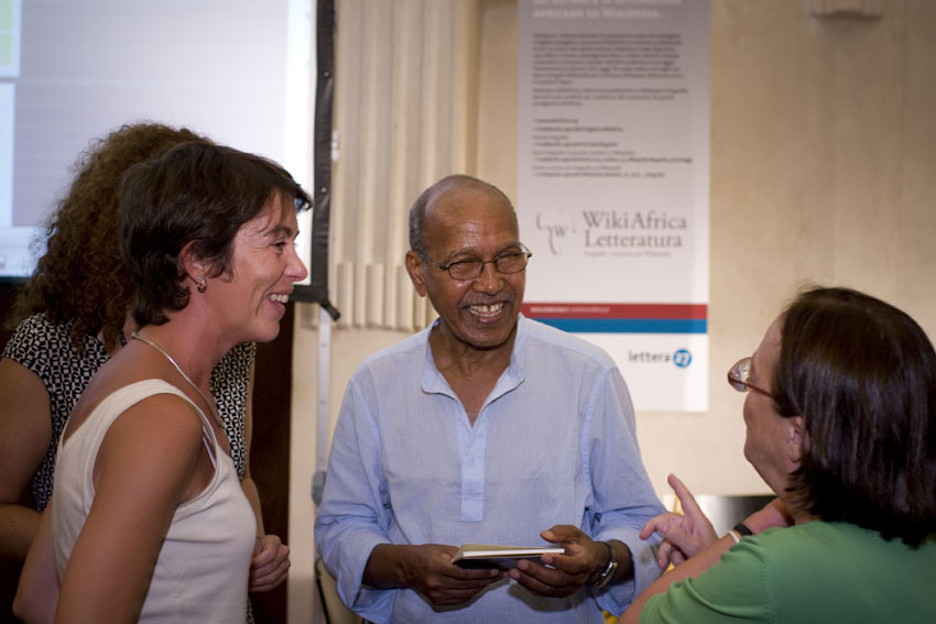 Nuruddin Farah talking with some fans at the round table organised by lettera27 at festivaletteratura of mantova in september 2008